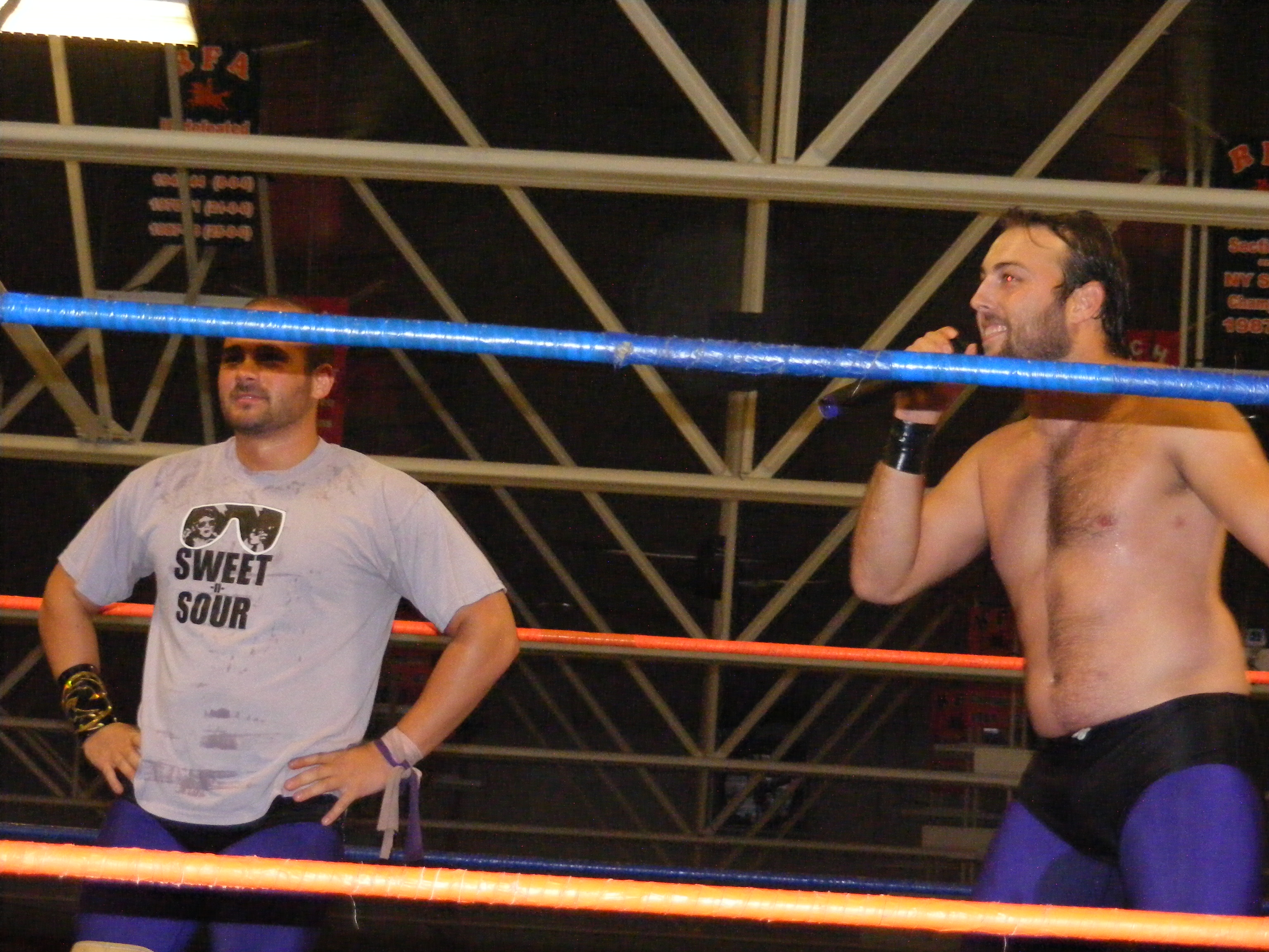 The Olsen Twins (Jimmy (left) and Colin (right) at a 2CW show in Rome, New York on September 16, 2011.